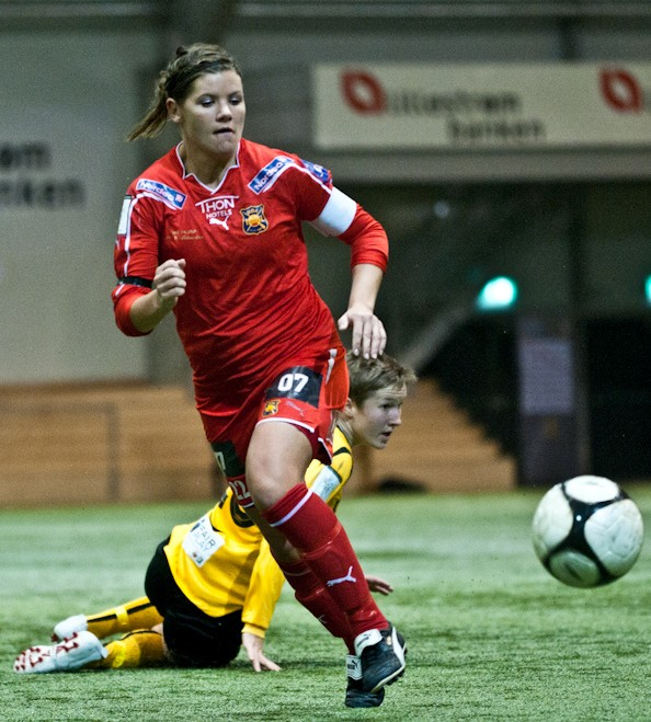 Siri Nordby playing for Røa against LSK Kvinner in LSK Hallen November 6th 2010.